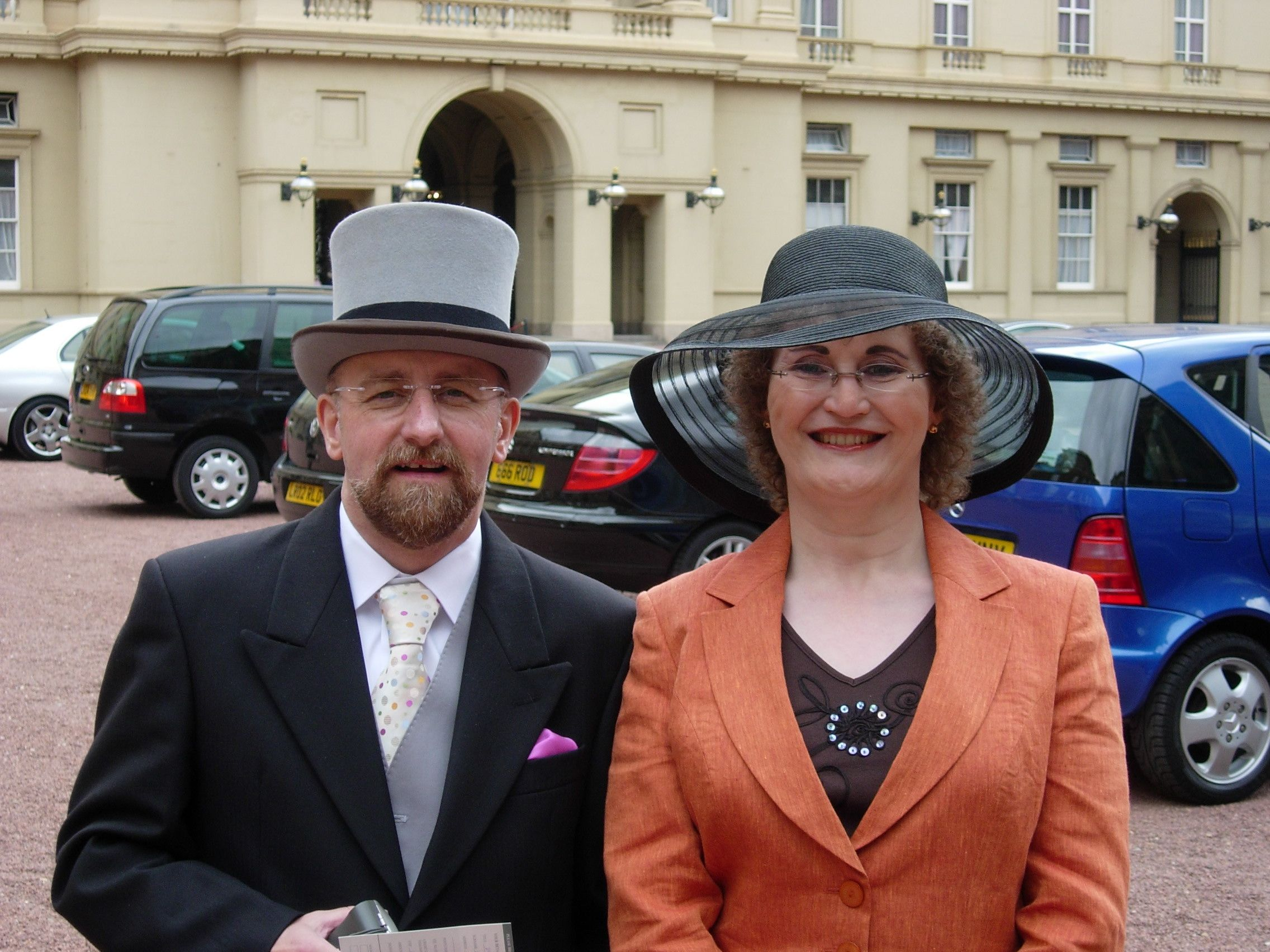 Leading British transgender rights activists Professor Stephen Whittle OBE and Christine Burns MBE receive their honours at an investiture at Buckingham Palace in May 2005